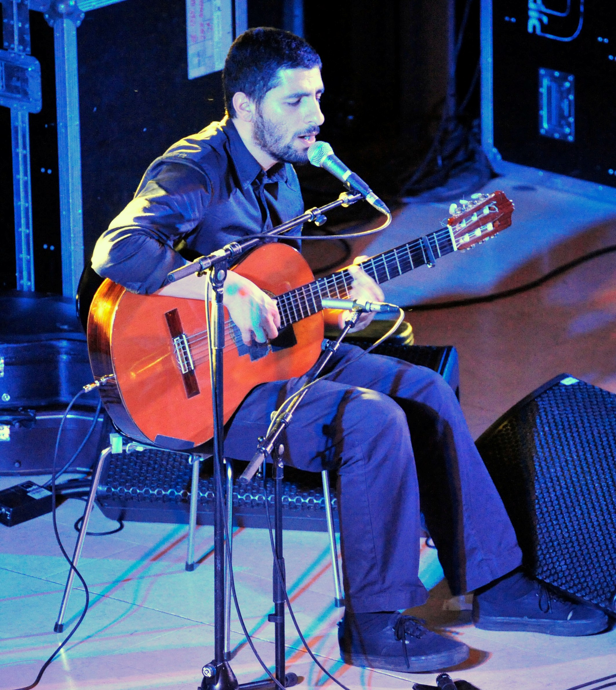 José González at the Danish National Museum of Art at the Night Music Gallery event, 22 November 2008